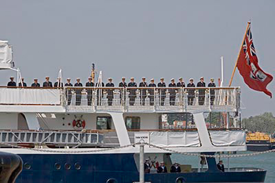 THV Patricia getting underway commencing the journey to Spithead for the Trafalgar 200 International Fleet Review by Elizabeth II. Trinity House Elder Brethren are paraded on deck for the first stage of the voyage acting as escort to Elizabeth II as is the traditional role of Trinity House. Based on an image from the book Trafalgar 200 Through the Lens Queen Elizabeth II 80th Birthday Edition. ISBN 0955300401. DP Kilfeather. ISBN 0955300401.